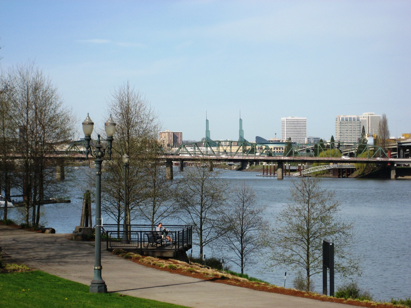 RiverPlace neighborhood at south end of Waterfront Park in Portland, Oregon. This section is South Waterfront Park.